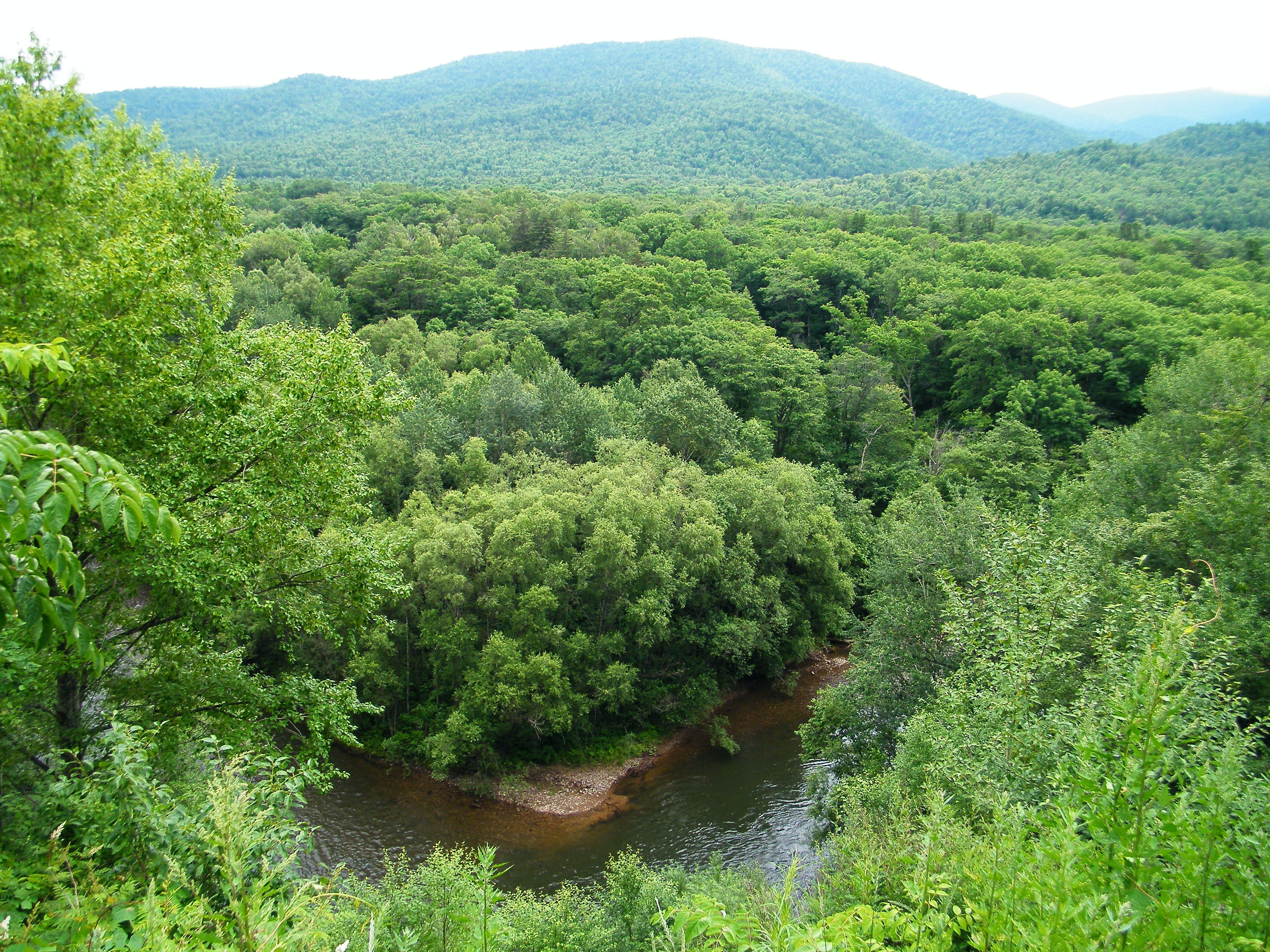 Pavlonka River 6 km downstream from Nizhniye Luzhki village in Chuguyevsky District, Primorsky Krai, Russia